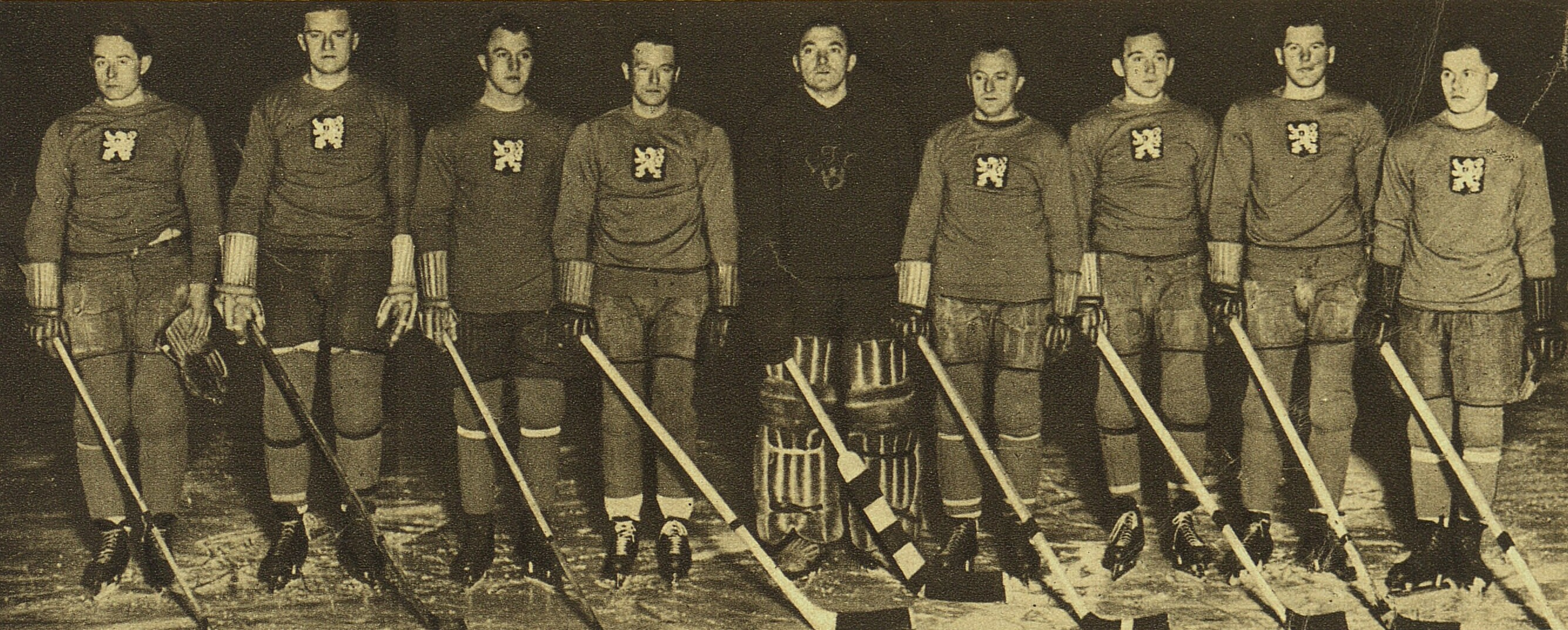 Czechoslovak hockey team at the World Championship 1933